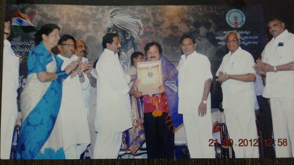 ఆంధ్రప్రదేశ్ మాజీ ముఖ్యమంత్రి నల్లారి కిరణ్ కుమార్ రెడ్డి చే గురజాడ పురస్కారం స్వీకరిస్తున్న రాంబాబు